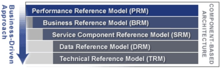 The FEA is being constructed through a collection of interrelated “reference models” designed to facilitate cross-agency analysis and the identification of duplicative investments, gaps, and opportunities for collaboration within and across Federal Agencies